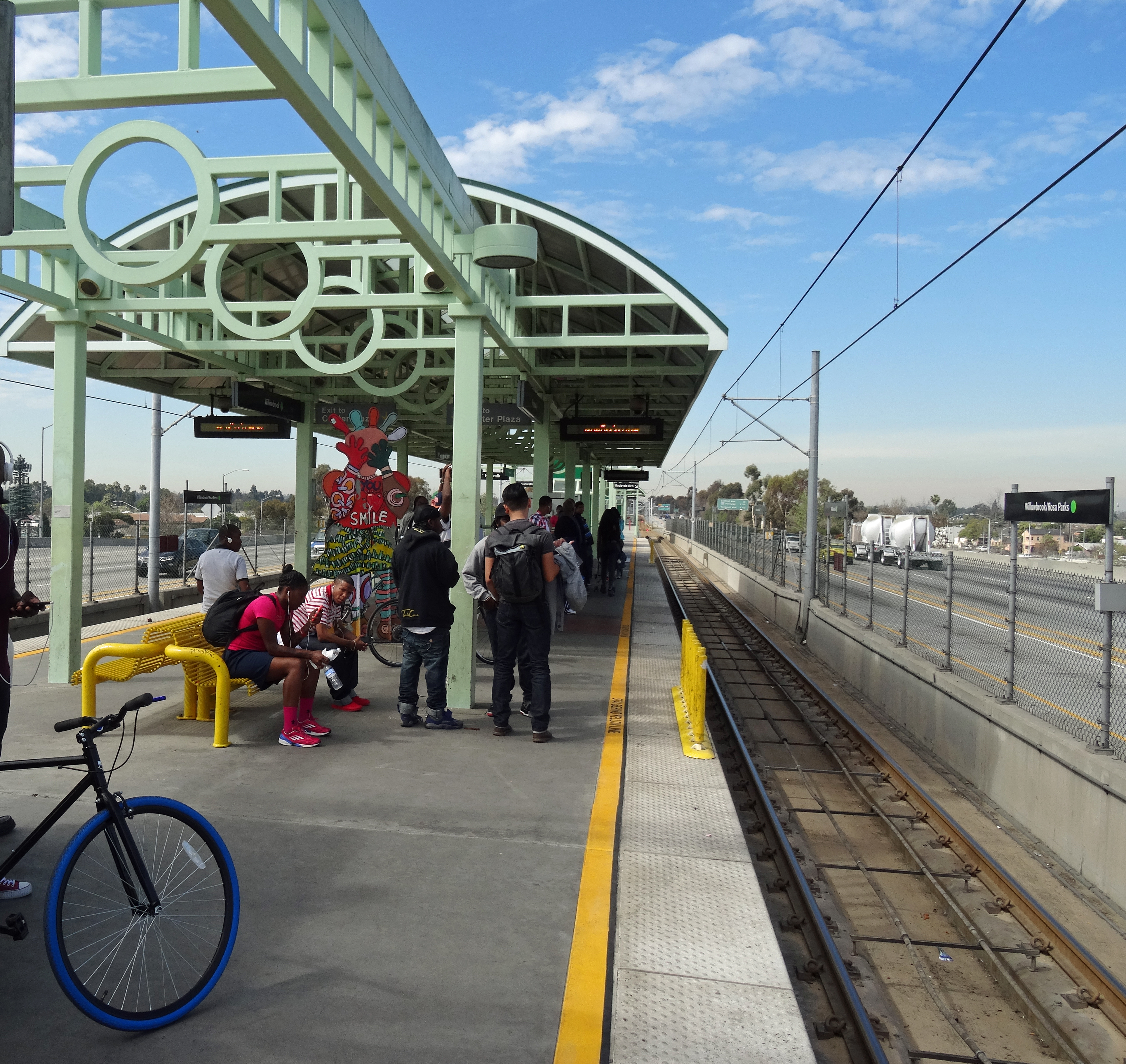 The green line platform at the Willowbrook stop on the Los Angeles Metro.